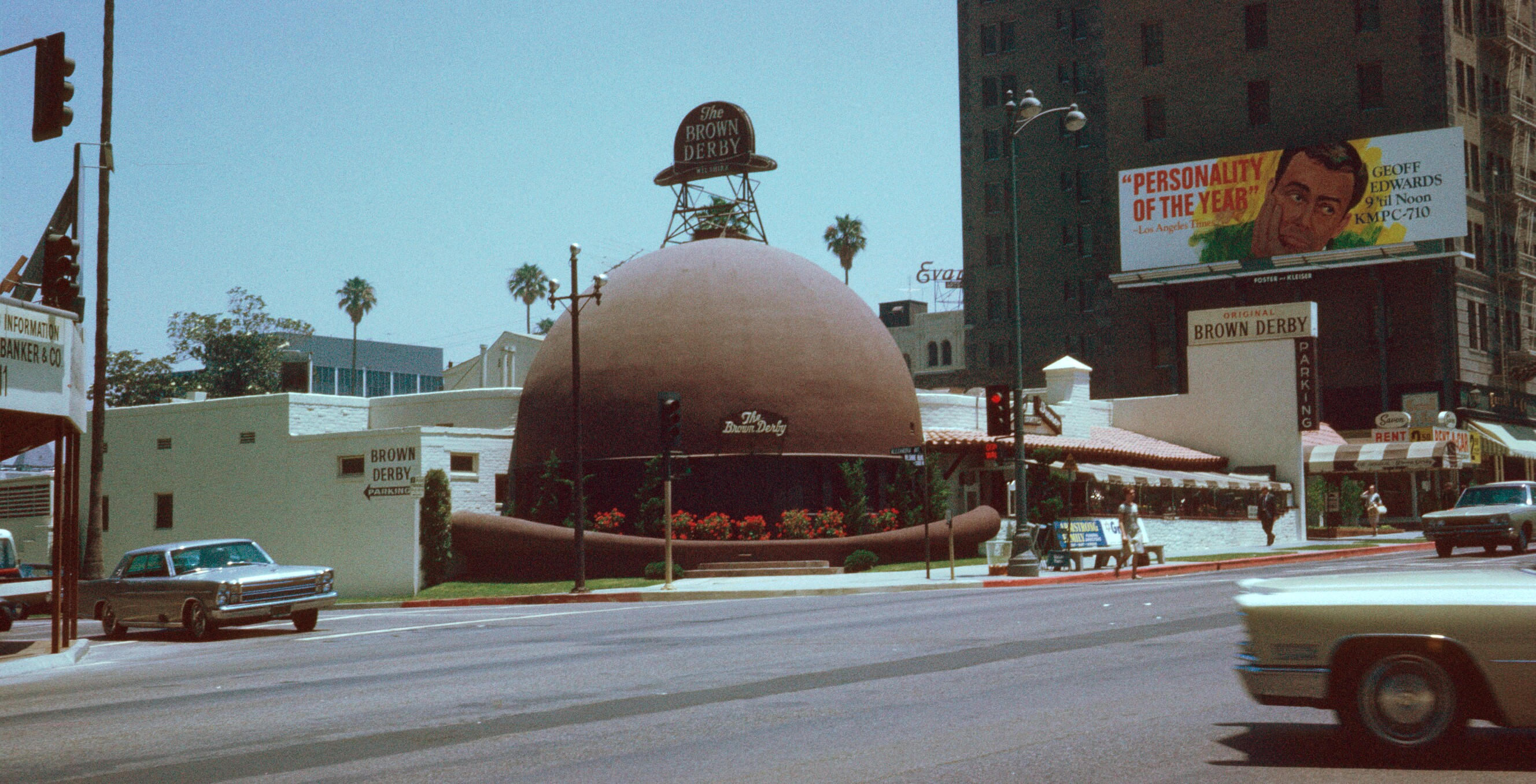 Brown Derby Restaurant, Los Angeles, California Other images by this contributor - Use this image as needed, but for uses other than personal, please credit as "Photo by Chalmers Butterfield".